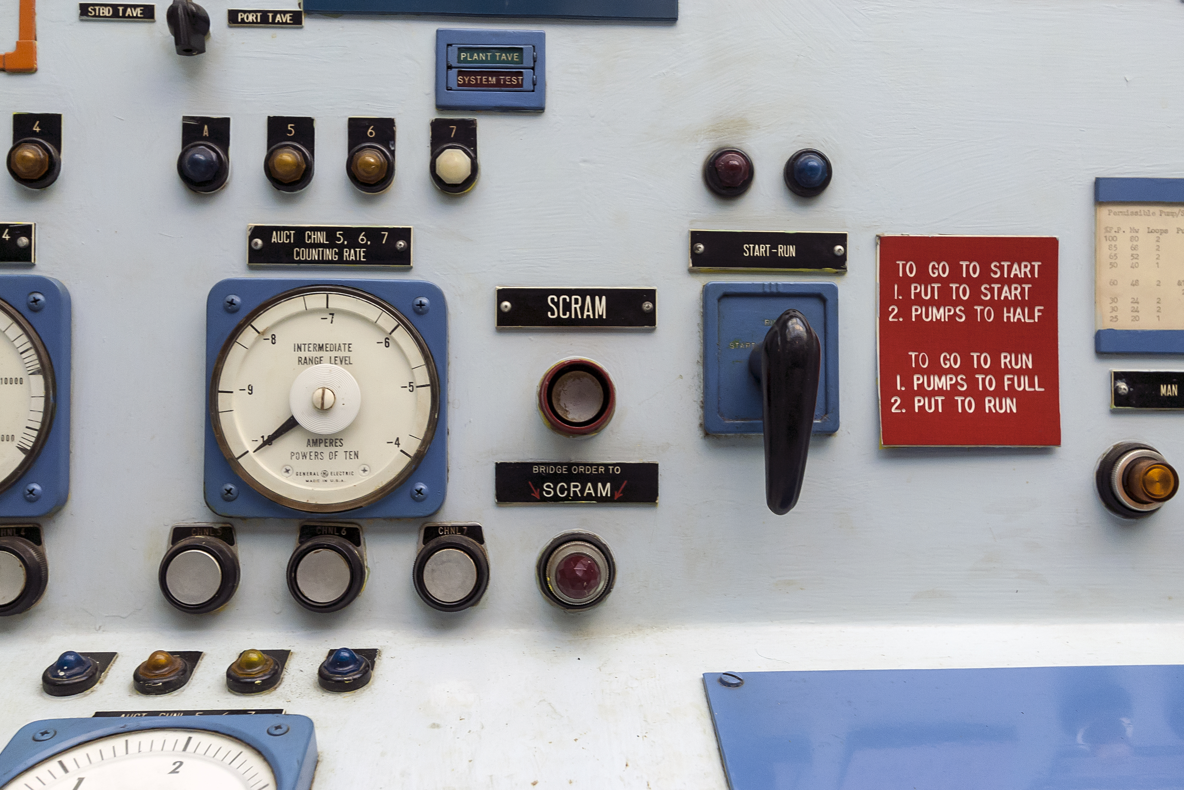 SCRAM button in the control room of the NS Savannah, to shut down the ship's nuclear reactor.